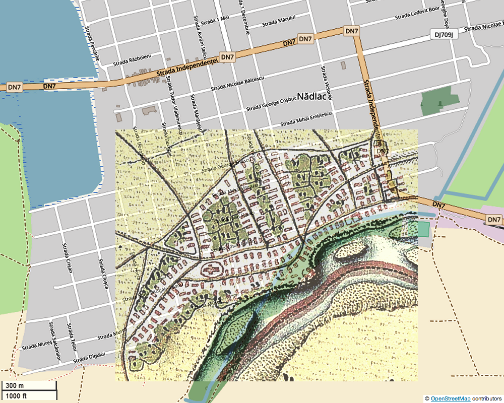 Nădlac in 1770